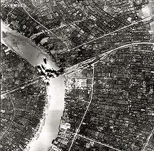 Allied Bombing of Rama VI Bridge.